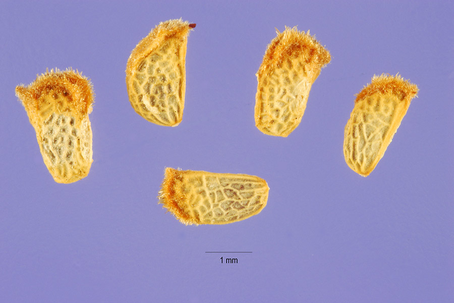 Rubus odoratus L. purpleflowering raspberry